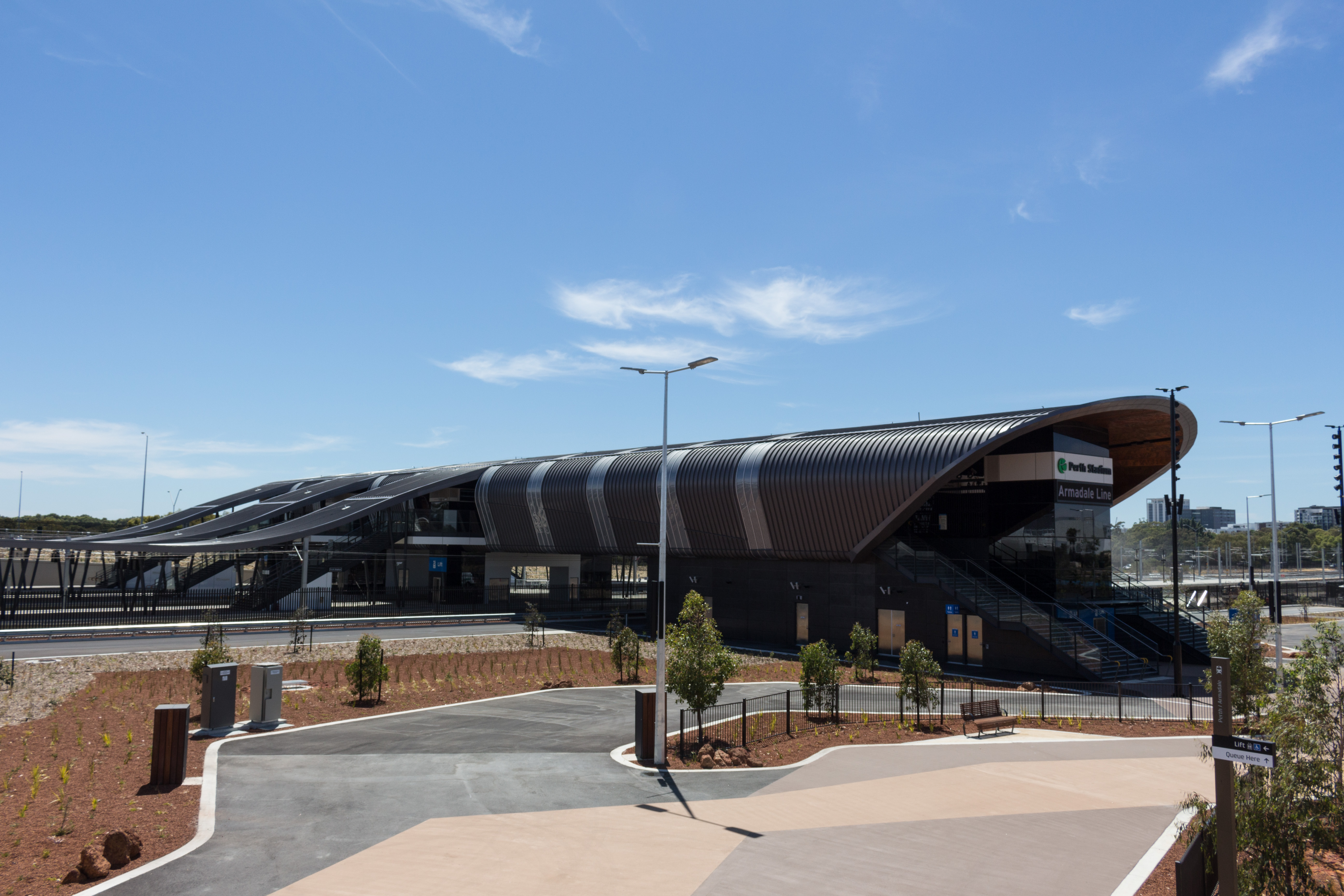 Perth Stadium railway station in December 2017